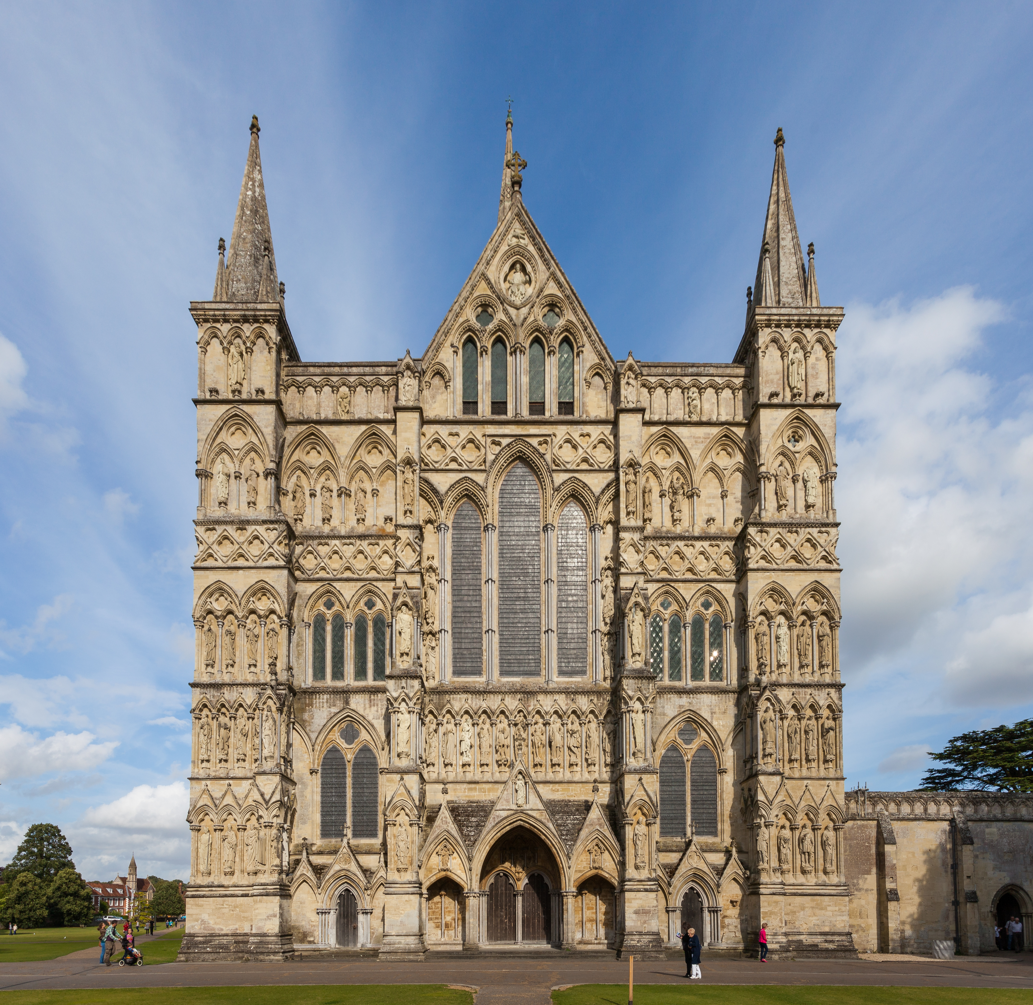 Catedral de Salisbury, Salisbury, Inglaterra